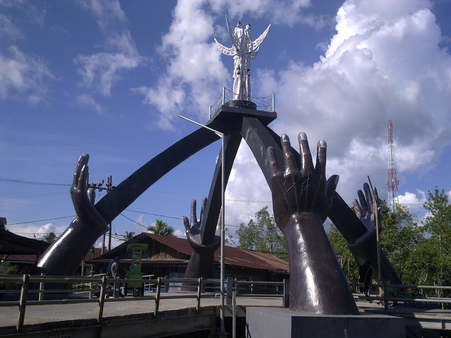 Icon of Asmat Regency located in Agats town